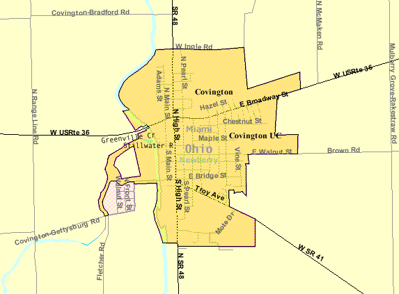 Map of Covington, a village in Miami County, Ohio, United States, with its boundaries at the time of the 2000 census.